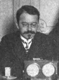 Photo of Alexander Levin